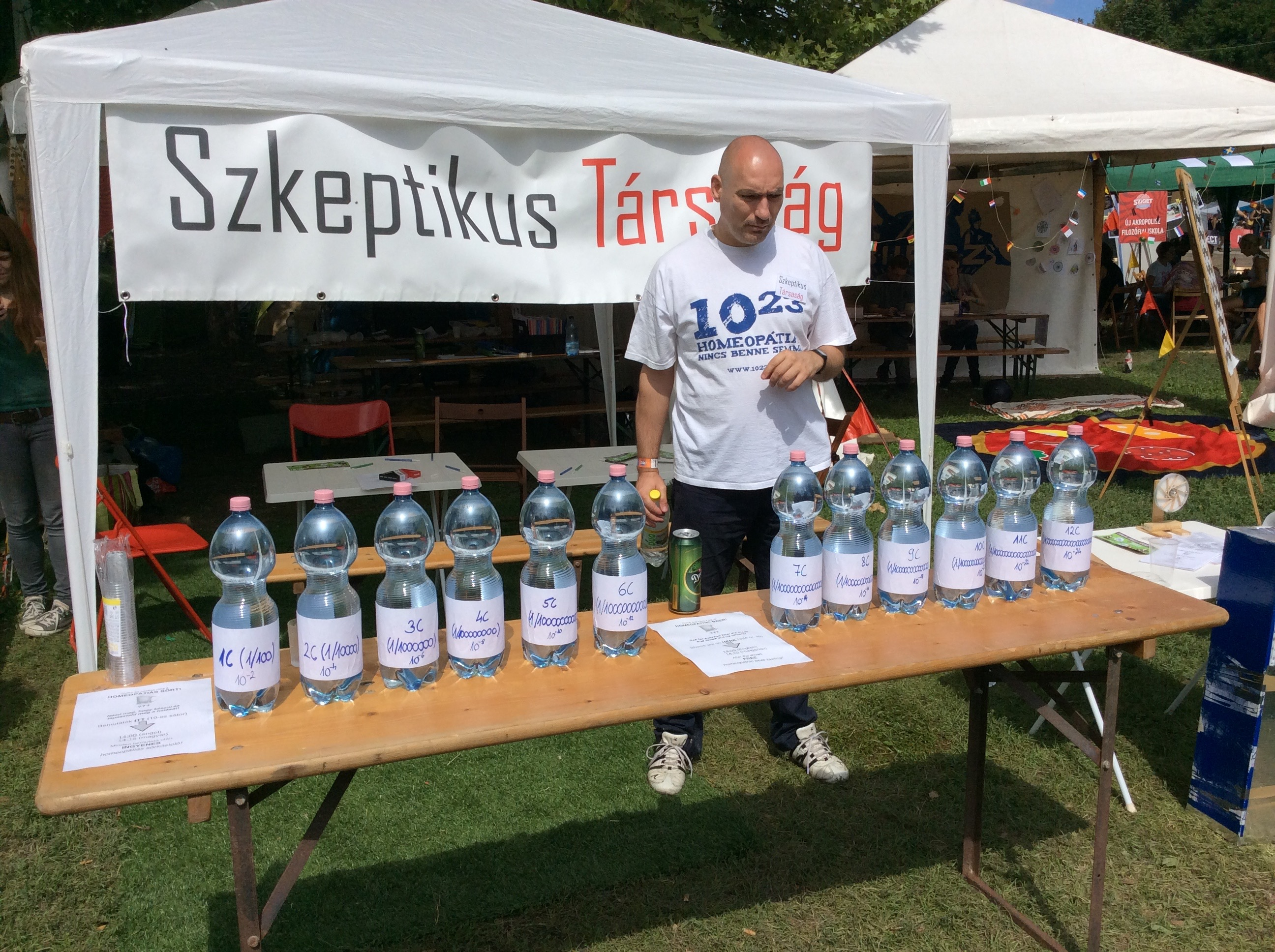 Demonstration of making homeopathic beer during Sziget Festival 2014 in Budapest, Hungary